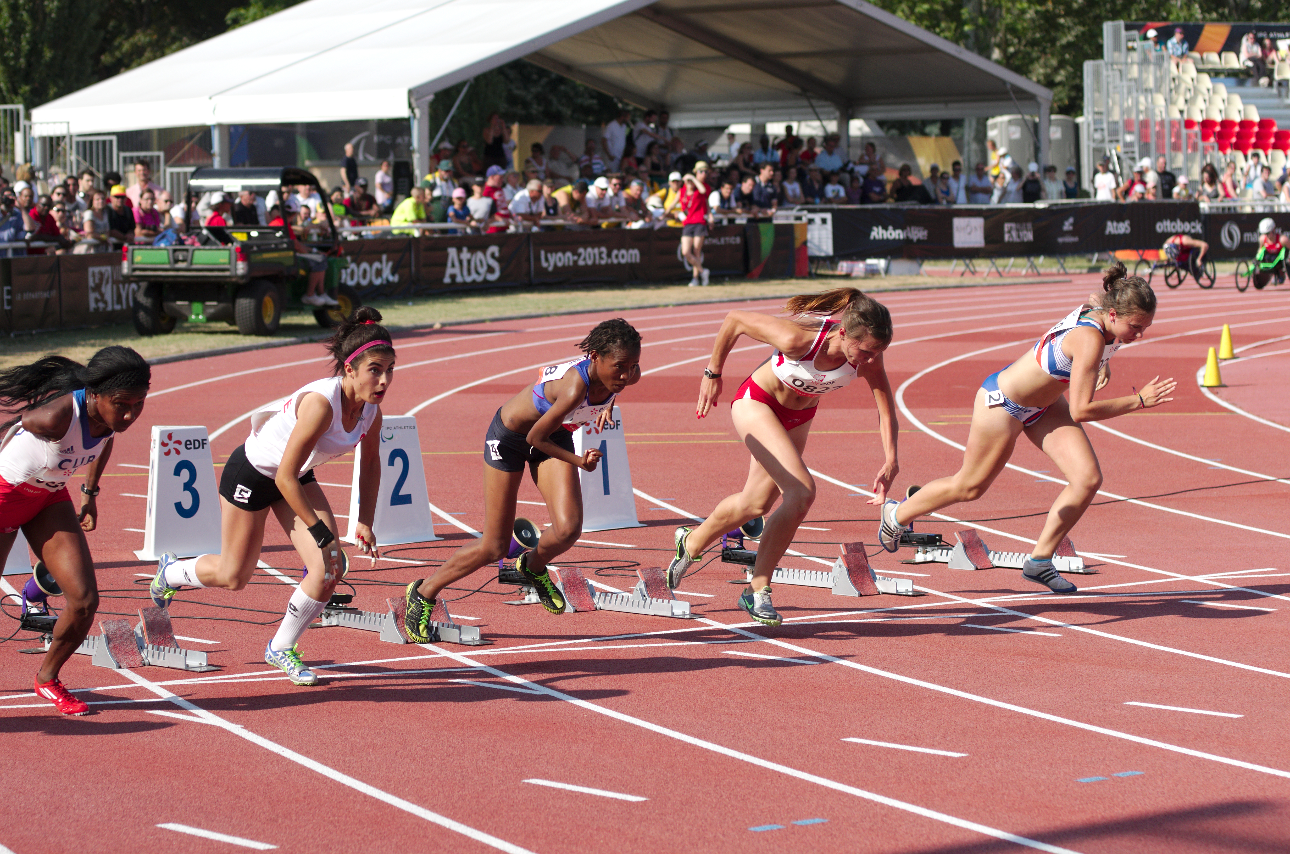 Y. Castillo of Cuba, D. Tanrikulu of Turkey, A. Johannes of Namibia, K. Piekart of Poland and T. Jakschova of Czech Republic during the Women's 100m - T46 second semifinal